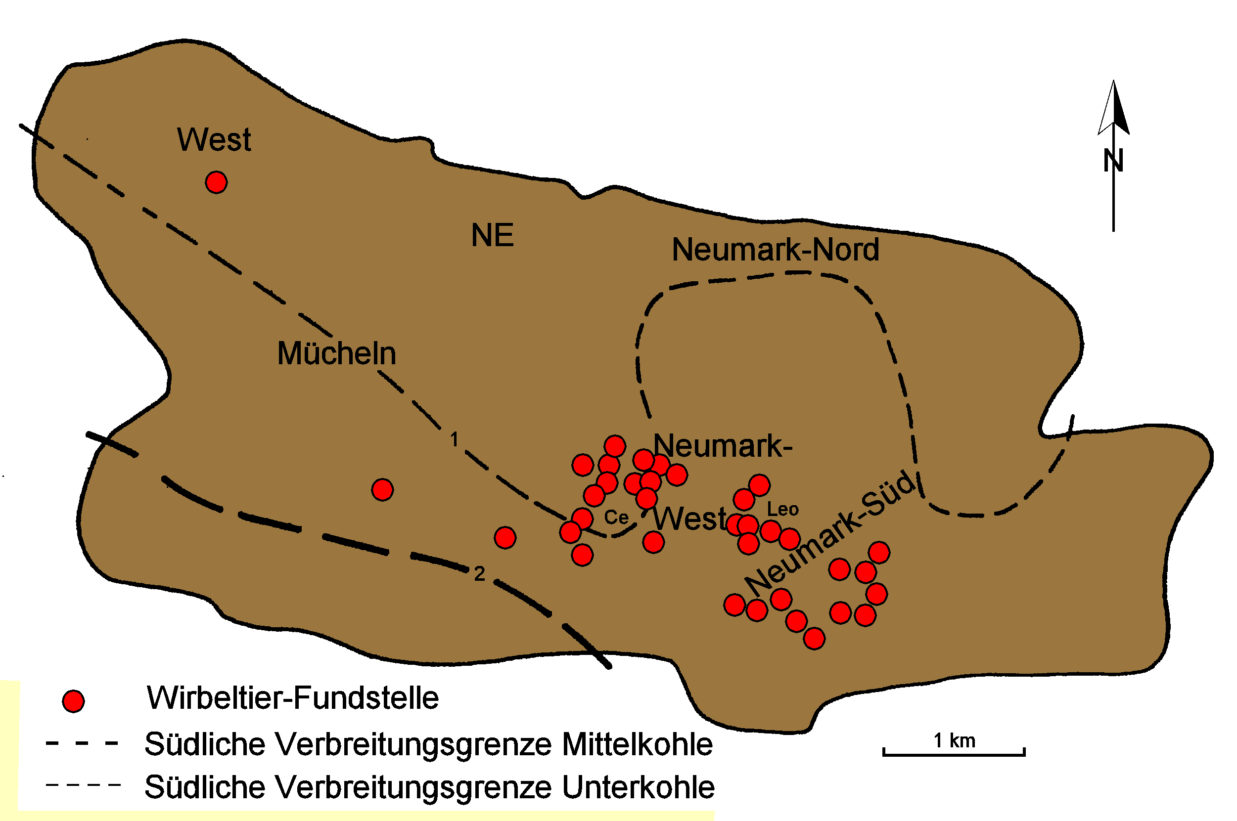 Distribution of vertebrate fossil sites in the Geiseltal after: Meinolf Hellmund: Letzte Grasbungsaktivitäten im südwestlichen Geiseltal bei Halle (Sachsen-Anhalt, Deutschland) in den Jahren 1992 und 1993. Hercynia N. F. 30, 1997, pp. 163–176 (p. 166)